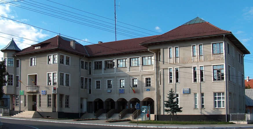 town hall of Sângeorz-Băi